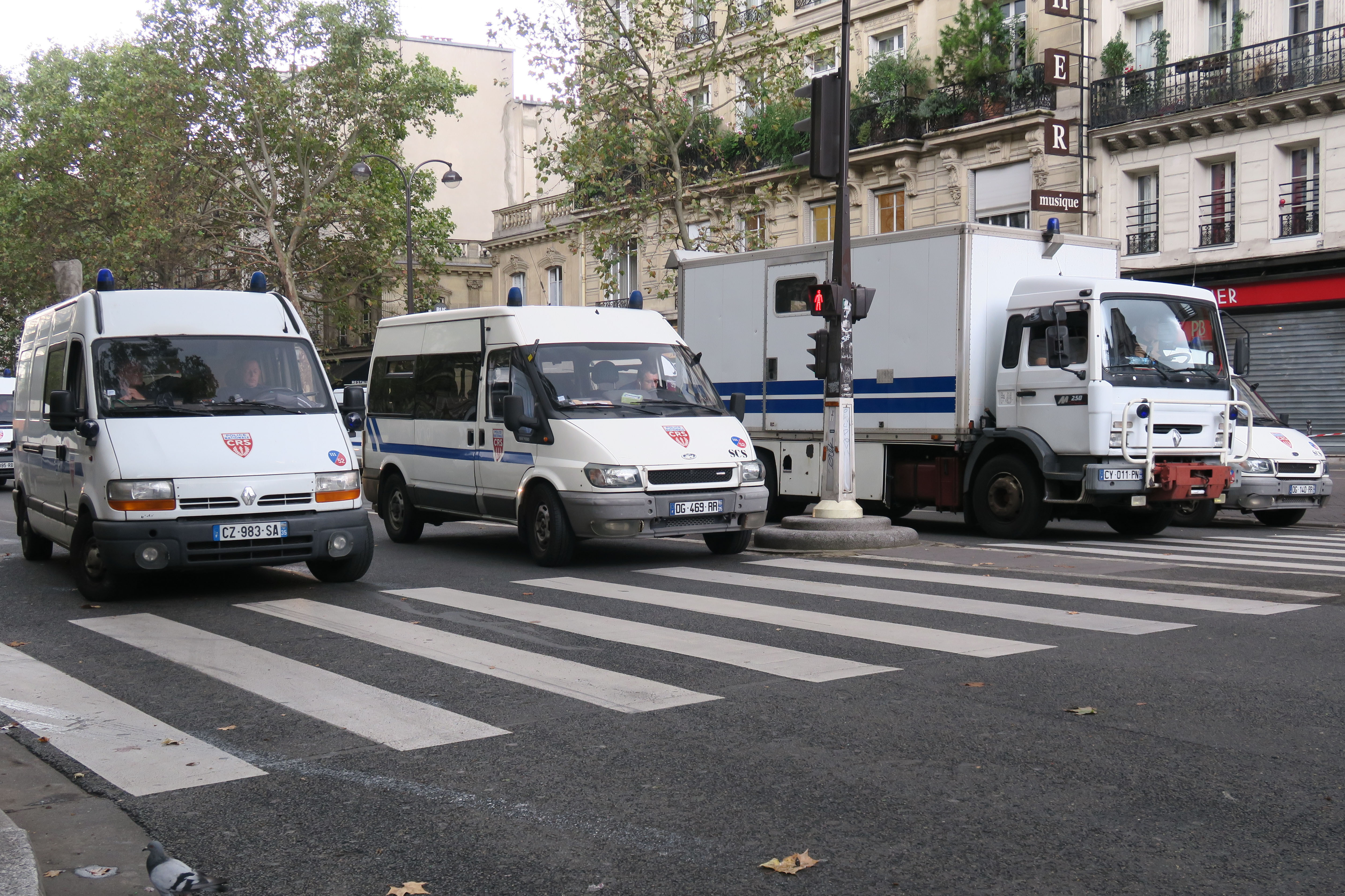 CRS vehicles during a demonstration in Paris - 2016